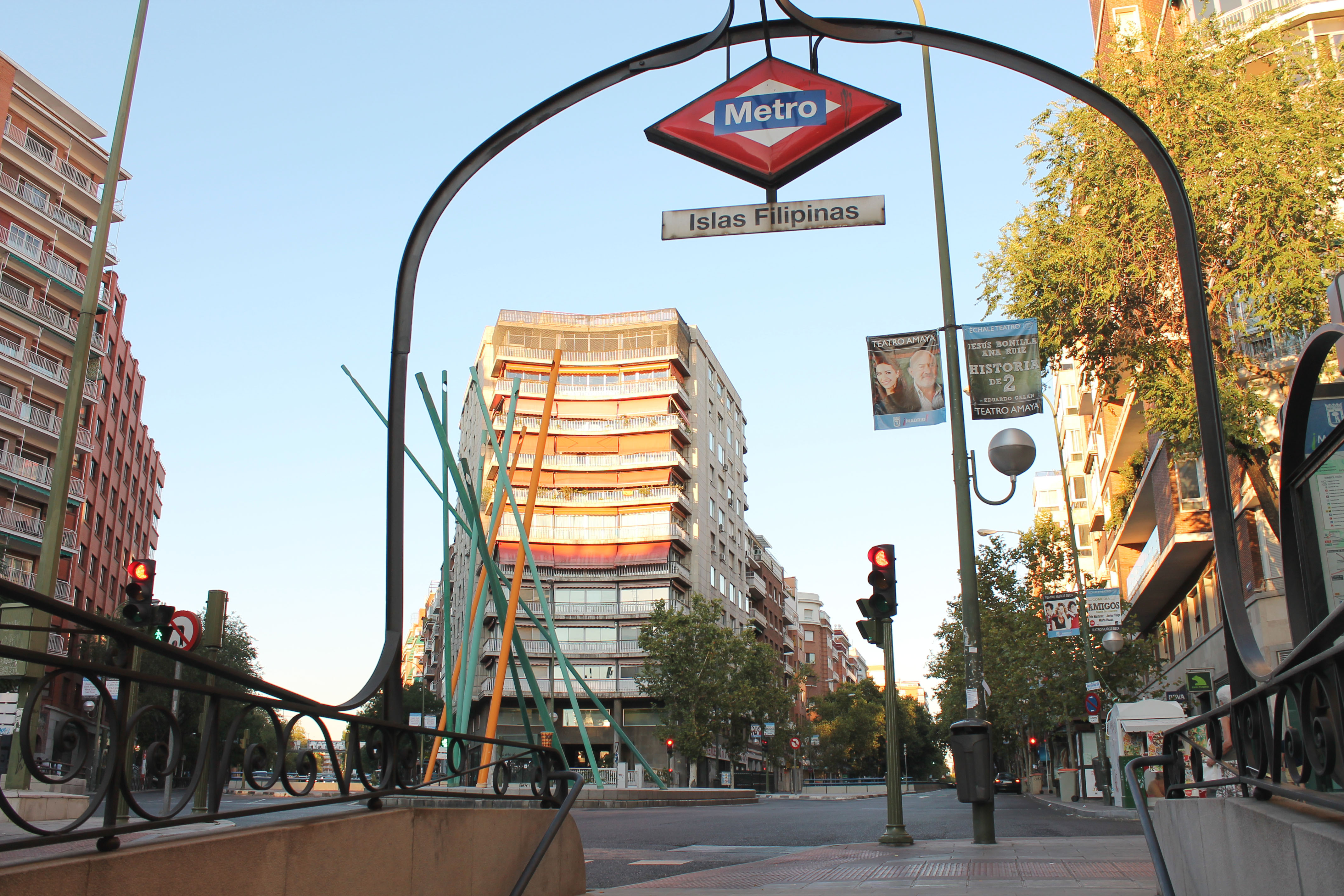 Entrance of Islas Filipinas metro station in Madrid (Spain).